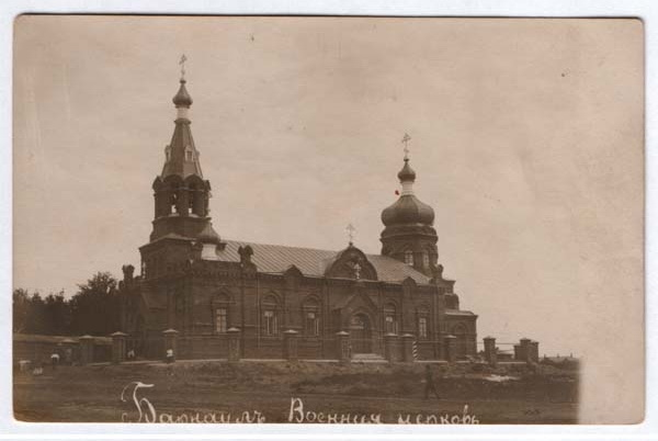 Barnaul (Russia), Znamenskaya Church